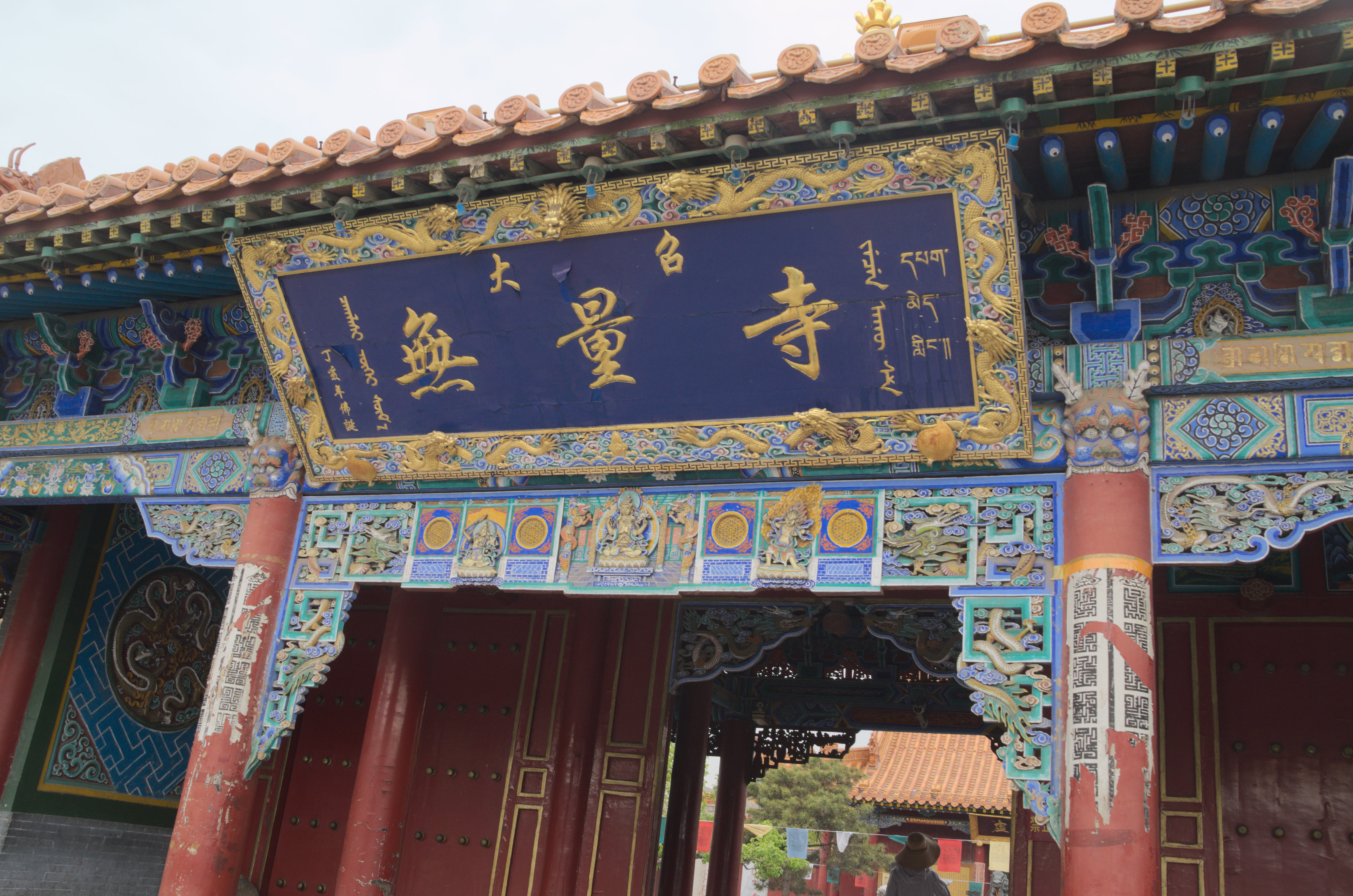 One of the panel of the Dazhao Temple, at Hohhot, capital of Inner-Mongolia, in People Republic of China. Center text is in Chinese hanzi, at the left, hanzi and mongolian, at the right, manchu and tibetan.